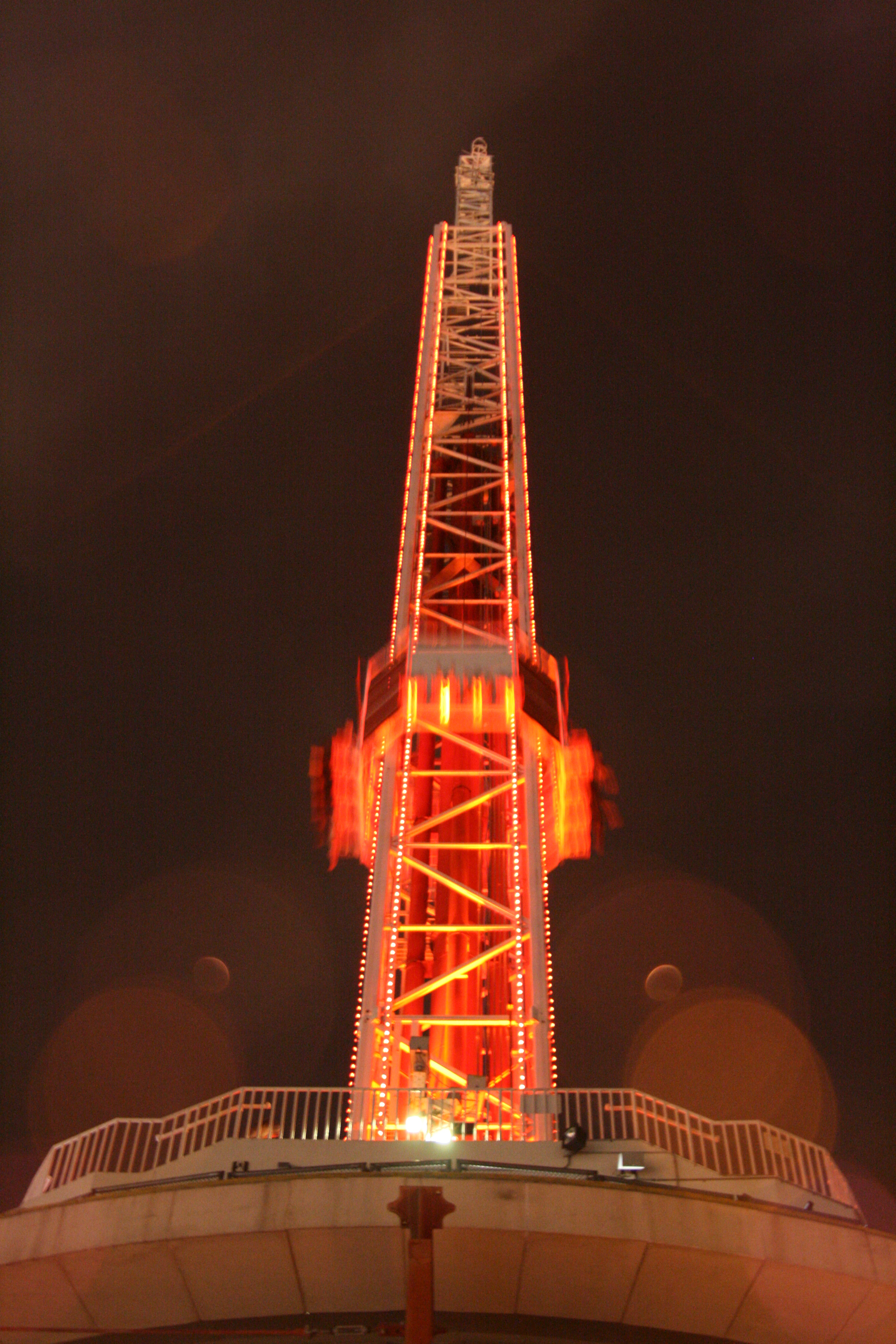 A picture of the thrill ride, the Big Shot at night.